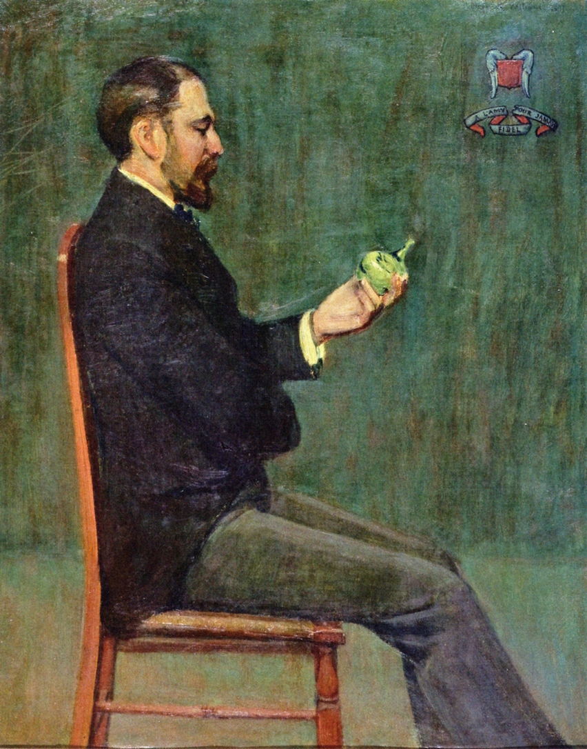 The Connoisseur (George Dudley Seymour) by Mary Rogers Williams (1857–1907), 1897.